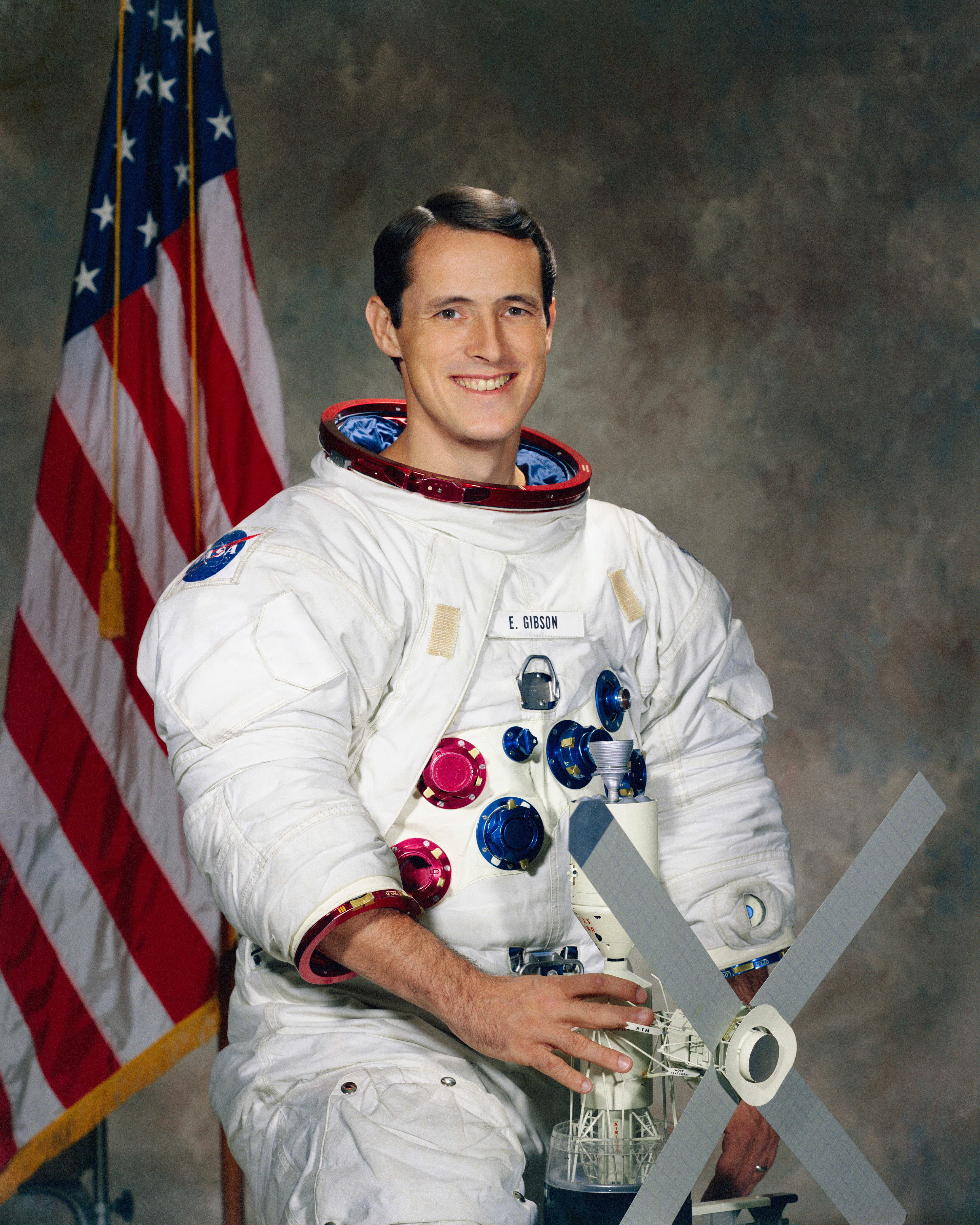 Astronaut Edward G. Gibson holding a model in his white spacesuit